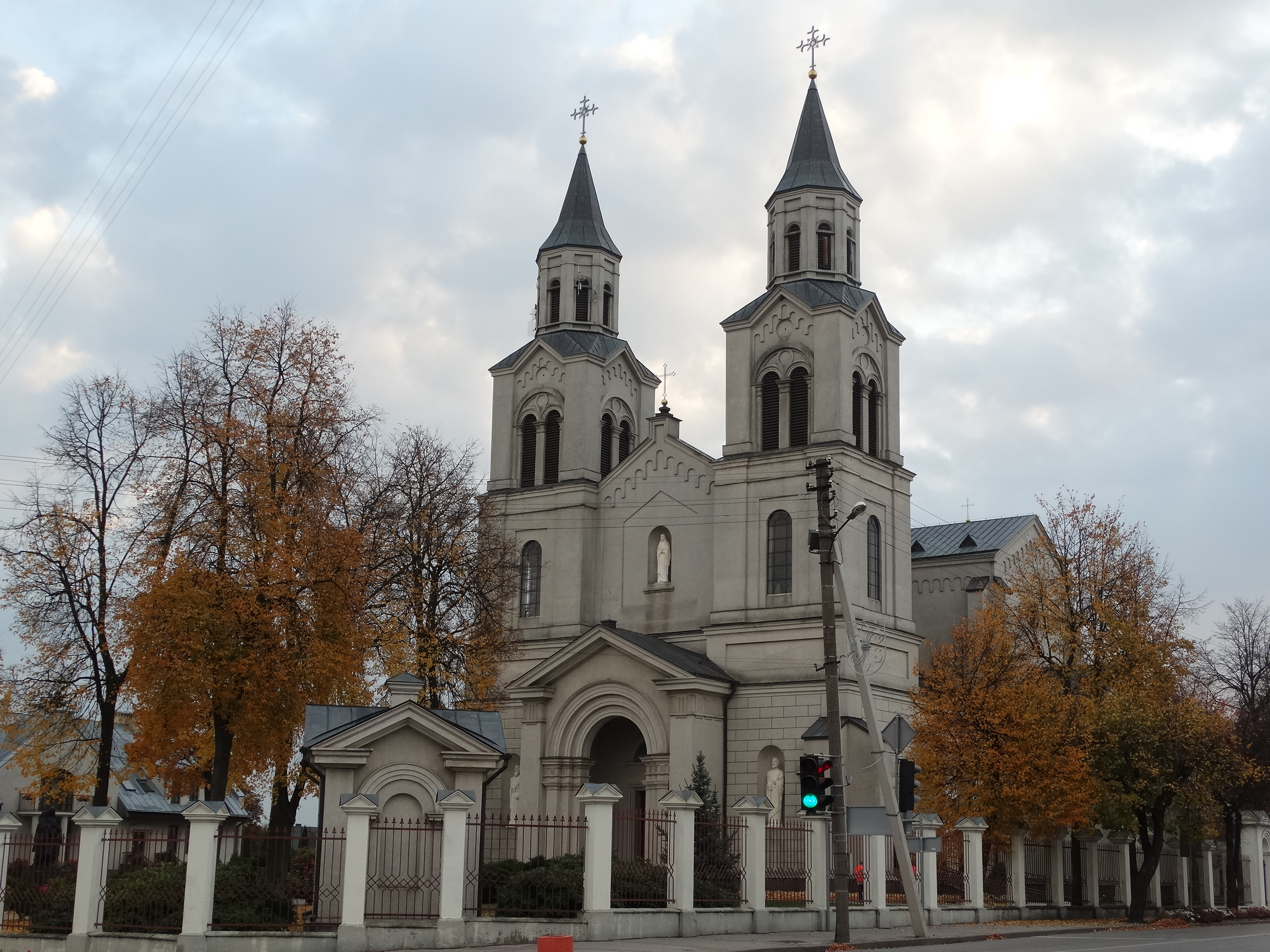 Roman Catholic Church of Saint Mary's Visitation in Vilkaviškis, Lithuania